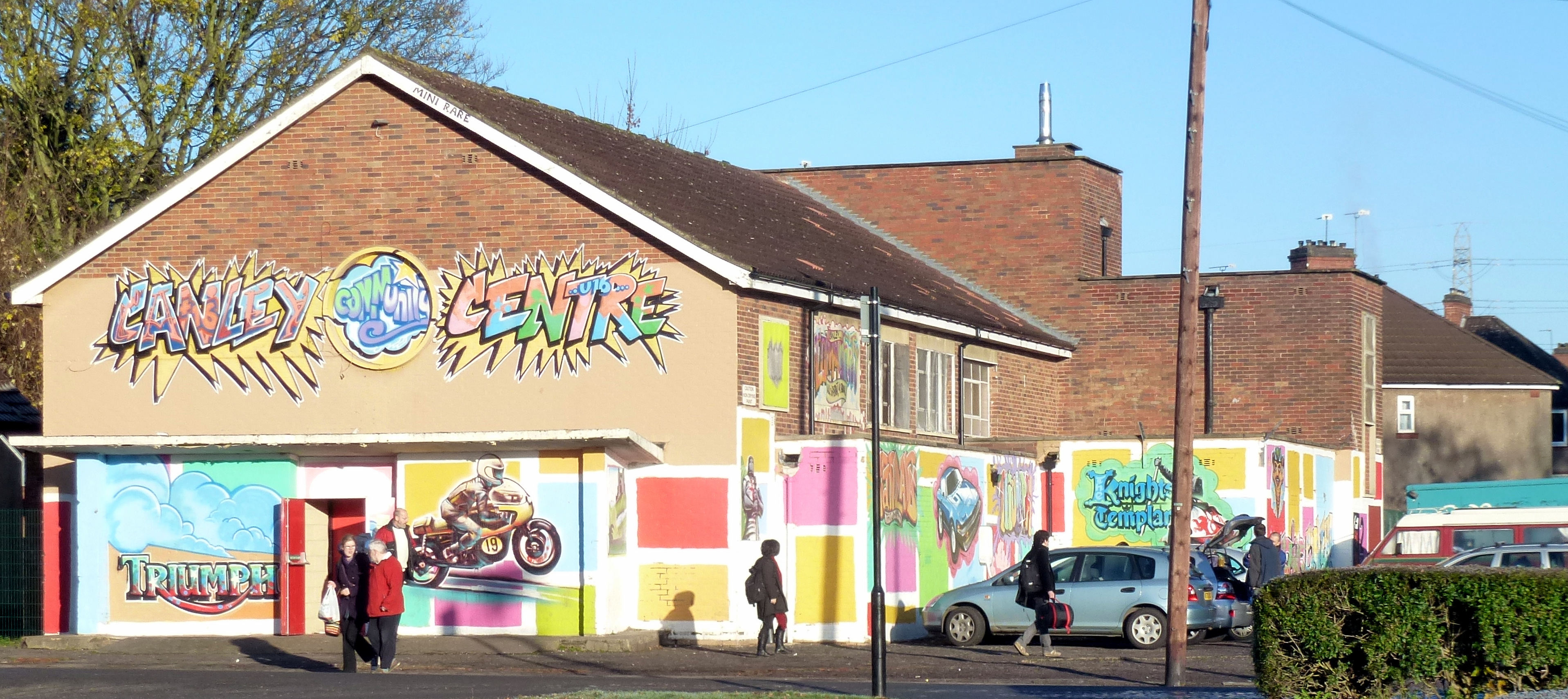 Canley Community Centre near Coventry, UK